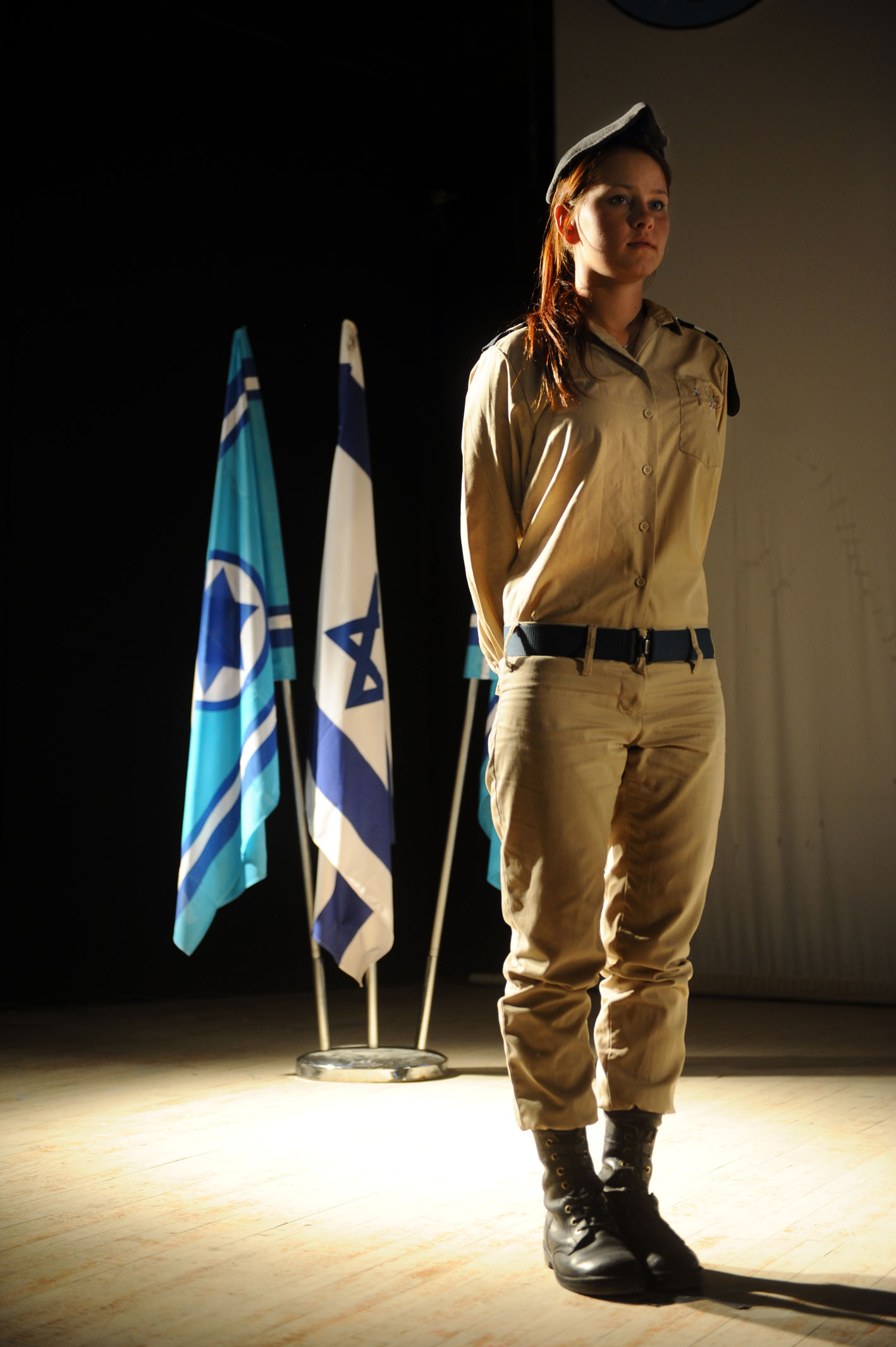 IDF medic Anastasia Bagdalov was a passenger on a civilian bus on the Israel-Egypt border last August when terrorists opened fire on it. Begdlov treated injured passengers immediately, improvising with whatever supplies she could reach. She used her bra as a tourniquet on a severely wounded man's knee, saving his life. Today, the IDF rewarded her with a military decoration. Begdlov is currently a cadet in officers' course.